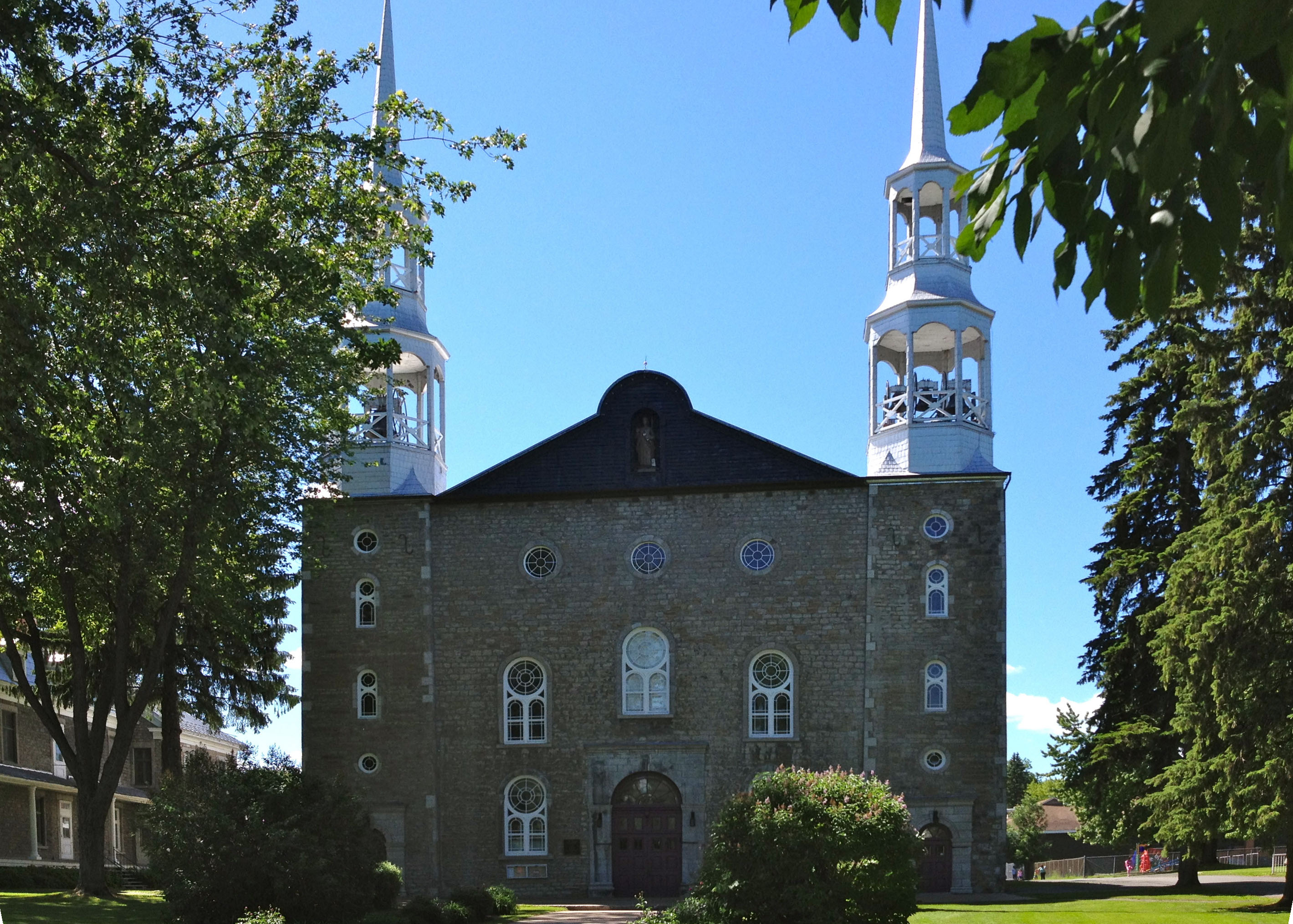 Catholic Church in Berthierville